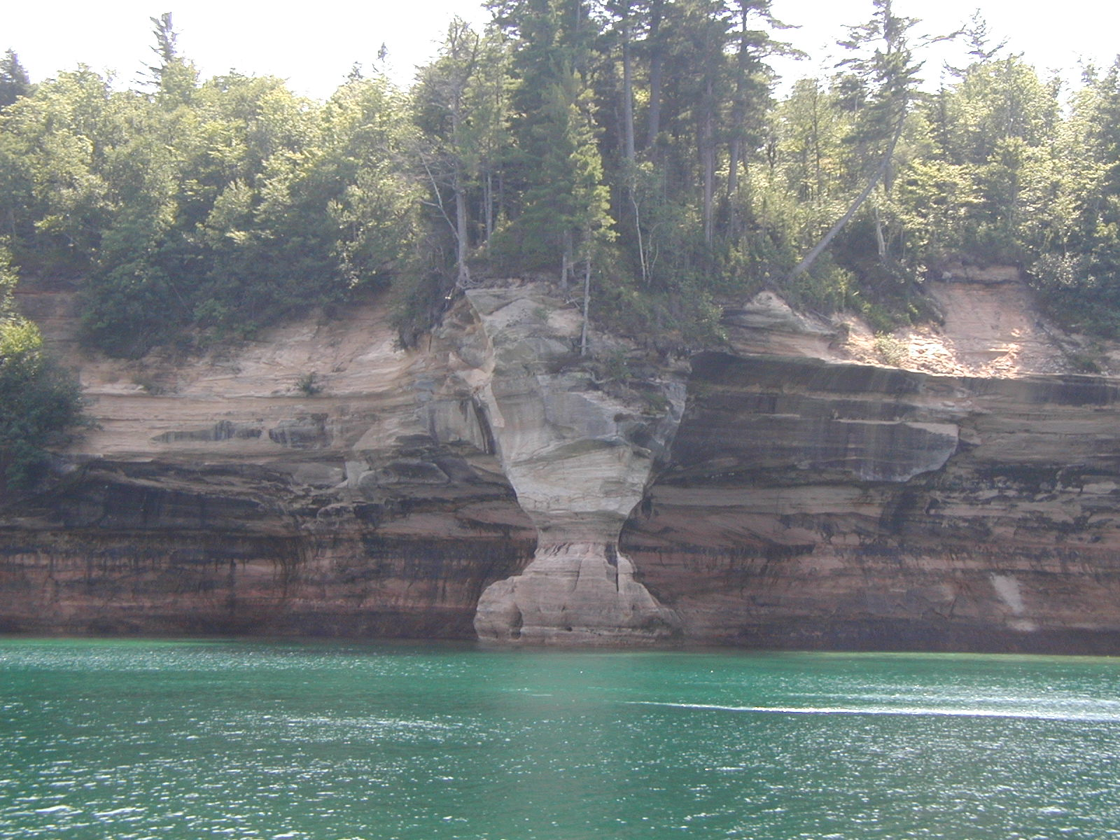 Pictured Rocks National Lakeshore in July, 2001. The white stone above is the Munising Formation, below is the red Jacobsville Sandstone.